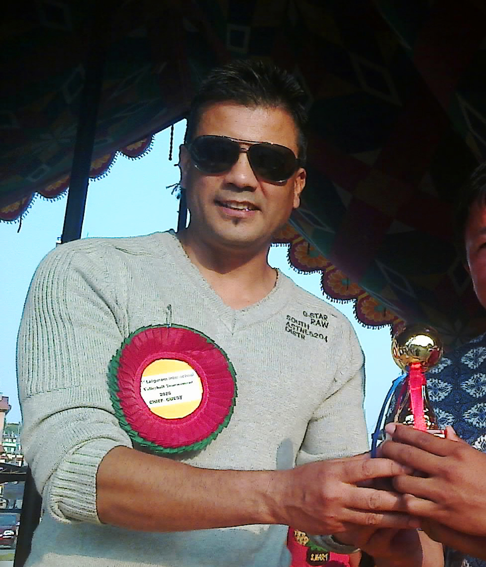 Sushil Chhetriis a Nepalese actor who has worked in the Nepalese film industry for more than a decade. नेपाली: सुशील क्षेत्री नेपालका एक चर्चित अभिनेता हुन् ।